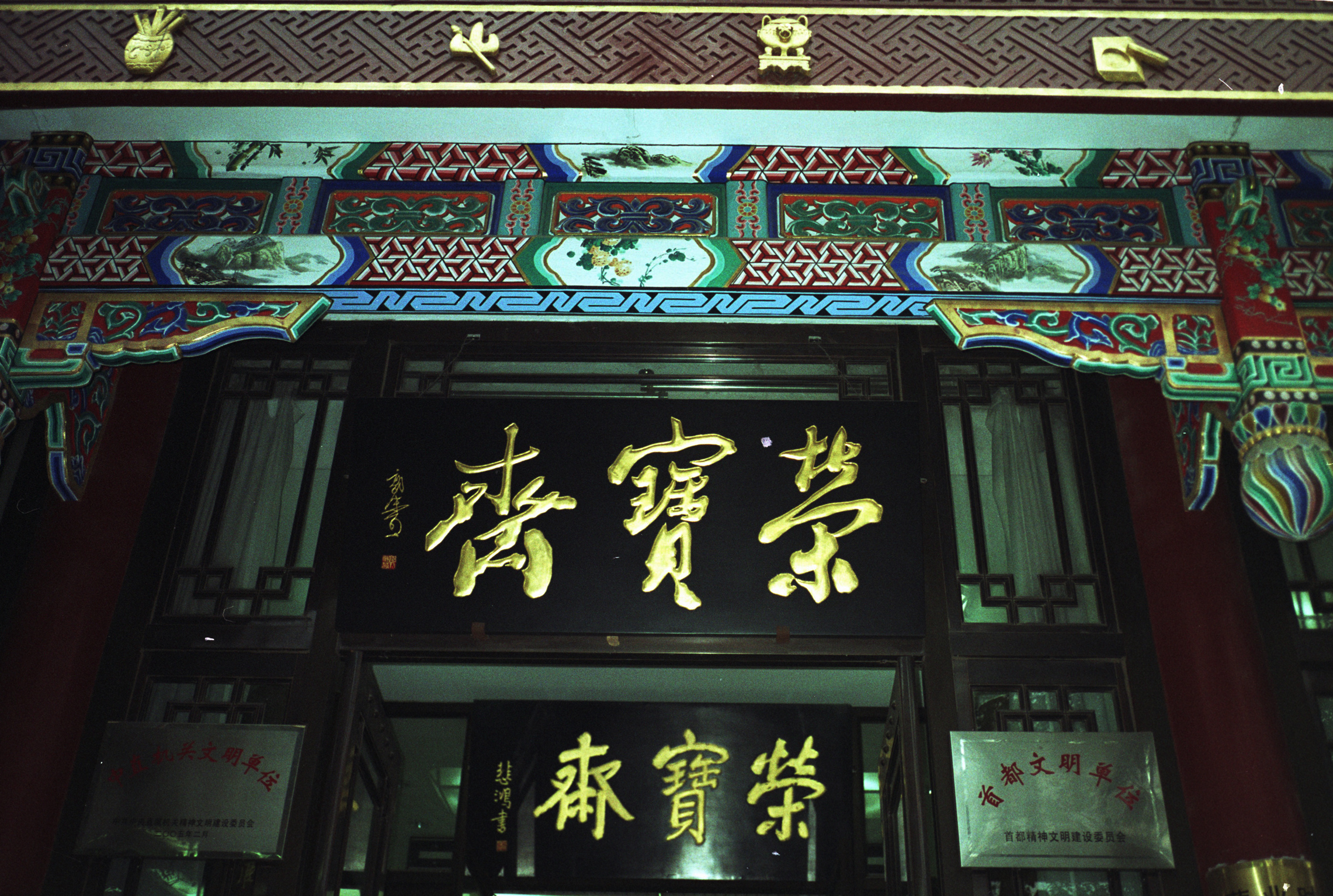 Ron Bao Zhai art shop in Beijing北京琉璃厂荣宝斋